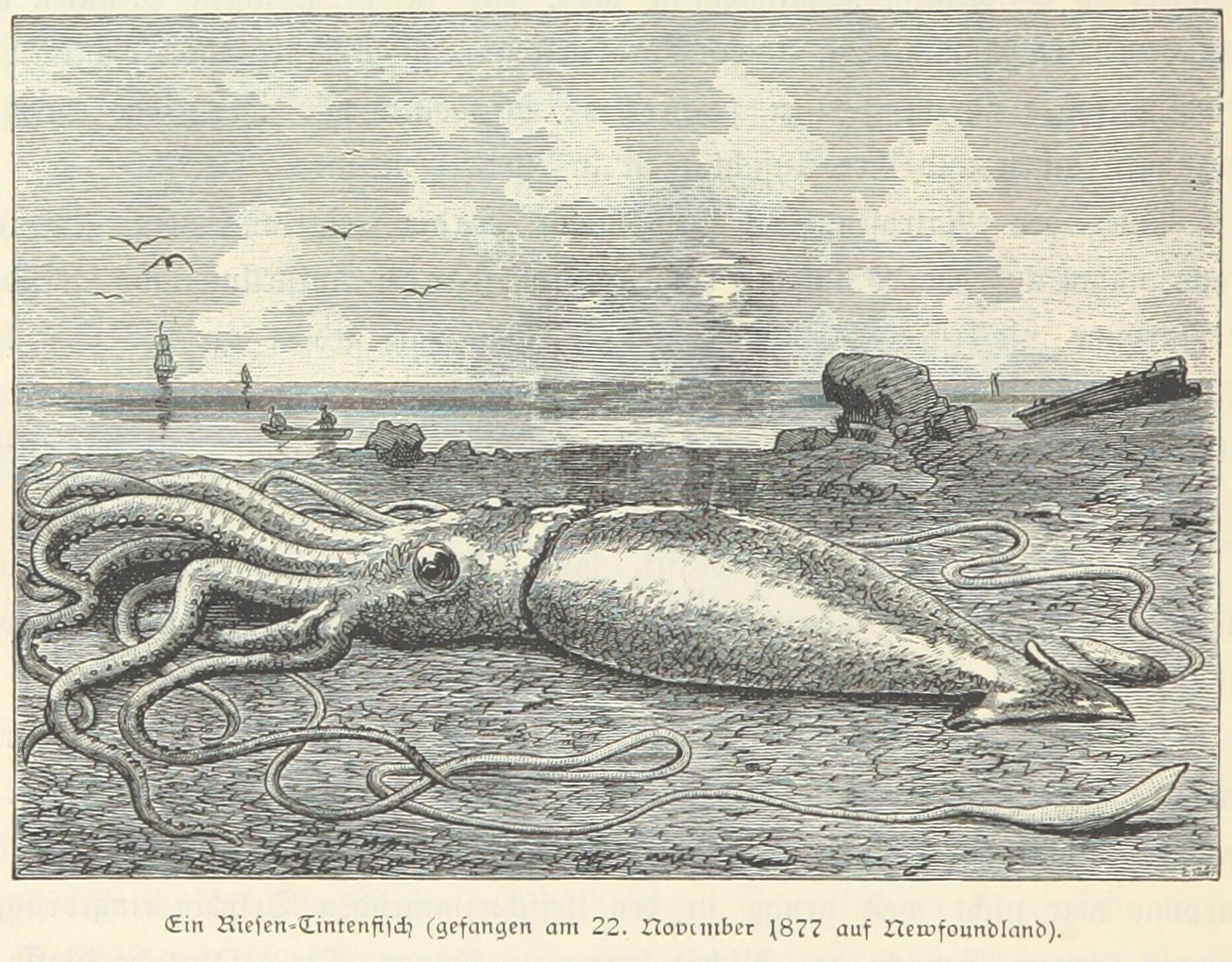 Illustration of a giant squid beached on the Newfoundland coast, apparently on 22 November 1877 (closest recorded specimen is from 21 November, from Smith's Sound, Lance Cove, Trinity Bay, Newfoundland).